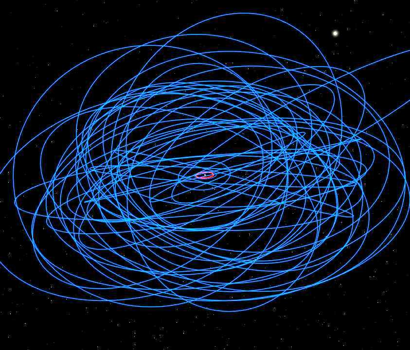 Orbits of the irregular satellites of Saturn. Image created with Celestia software. Titan's orbit highlighted in red.